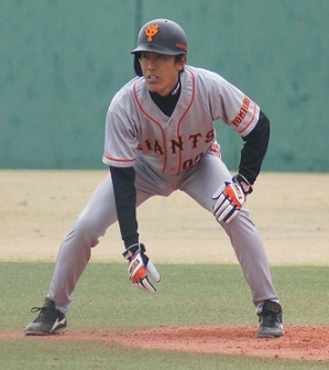 Giants_ogino_004